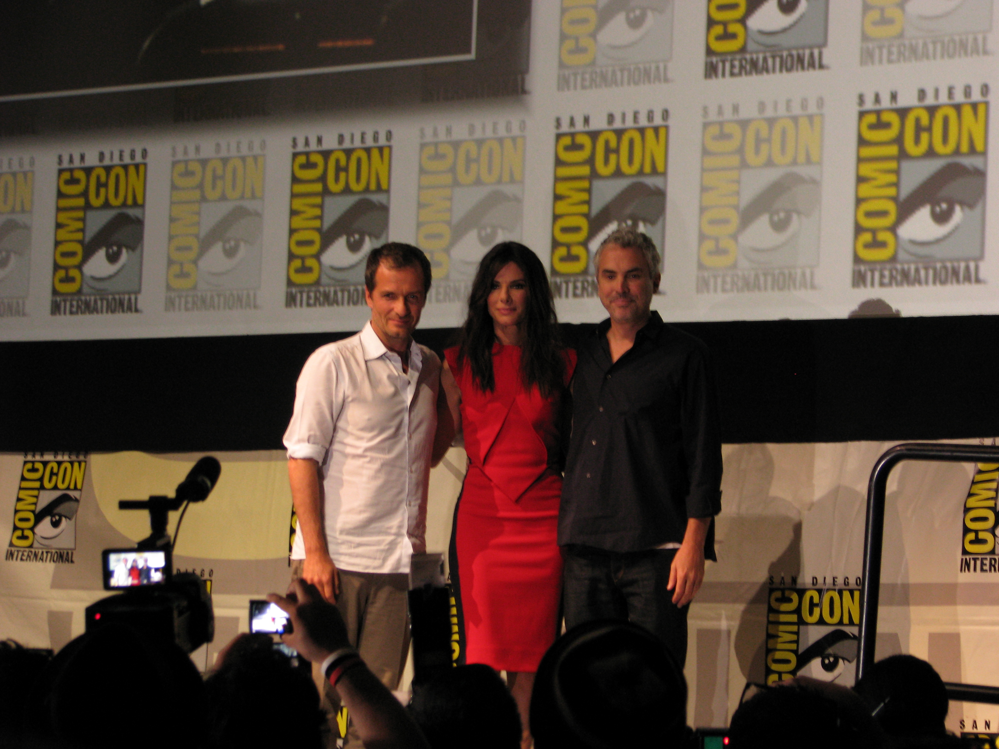 The photo shoot after the Gravity panel with Sandra Bullock [center] and director Alfonso Cuarón [right]